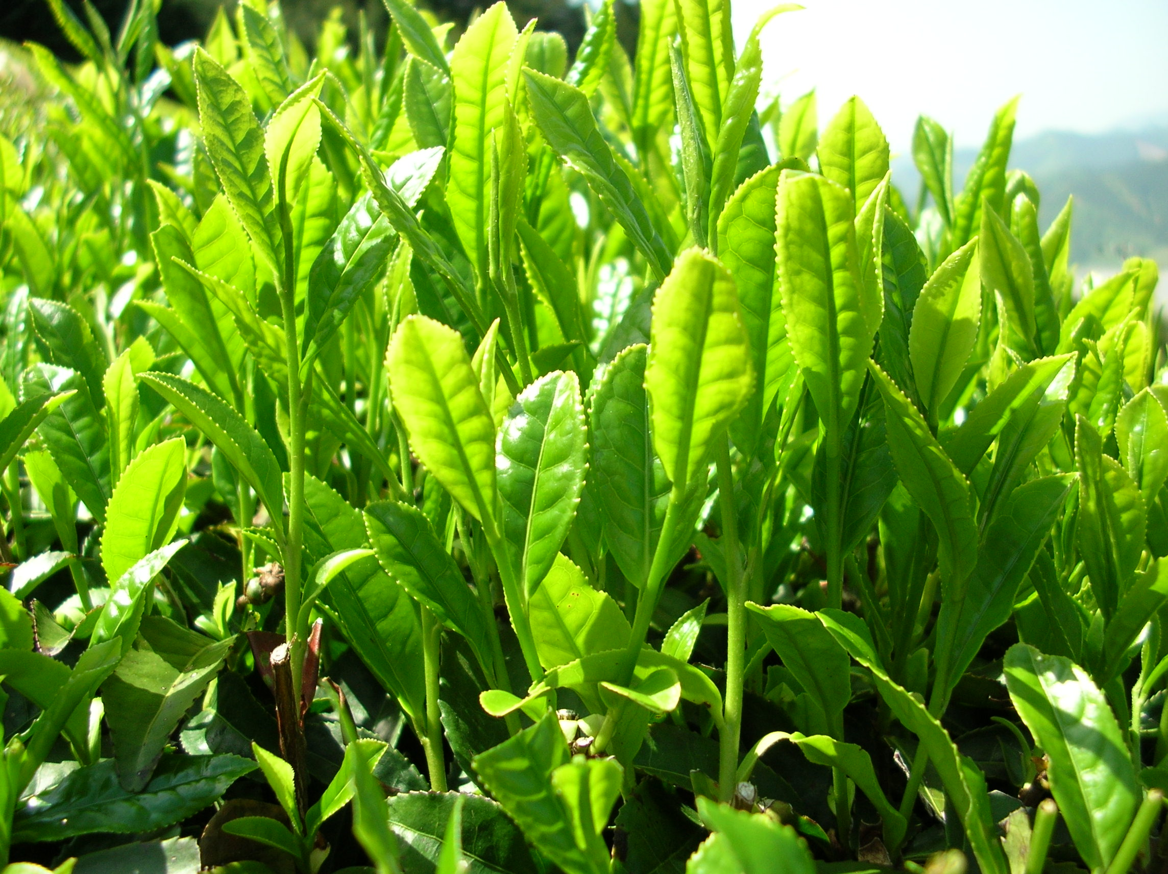 Tea leaves from Japanese Yabukita tea plant.